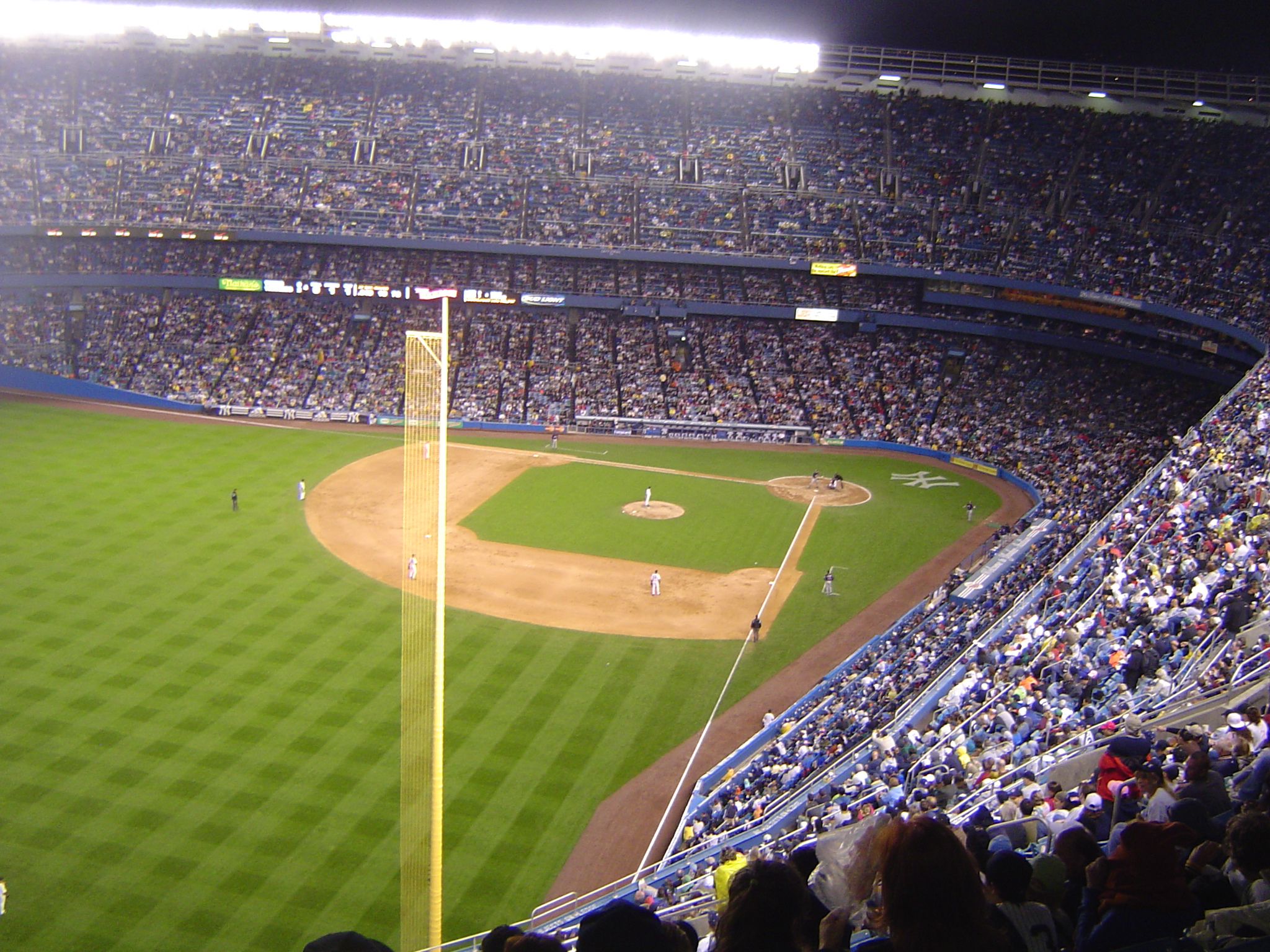 View of a night game at Yankee Stadium from the third tier05:58, 14 November 2006 . . Anubis2051 . . 2048×1536 (1,498,900 bytes)